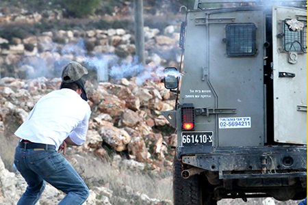 The tear gas canister hitting Mustafa's face was fired from the rear door of a military vehicle which Mustafa was running after. The canister can be seen in the air moving toward his face. Mustaf Tamim was fatally shot by Israeli forces in 9 December 2011 during a weekly protest in Nabi Salih, West Bank.